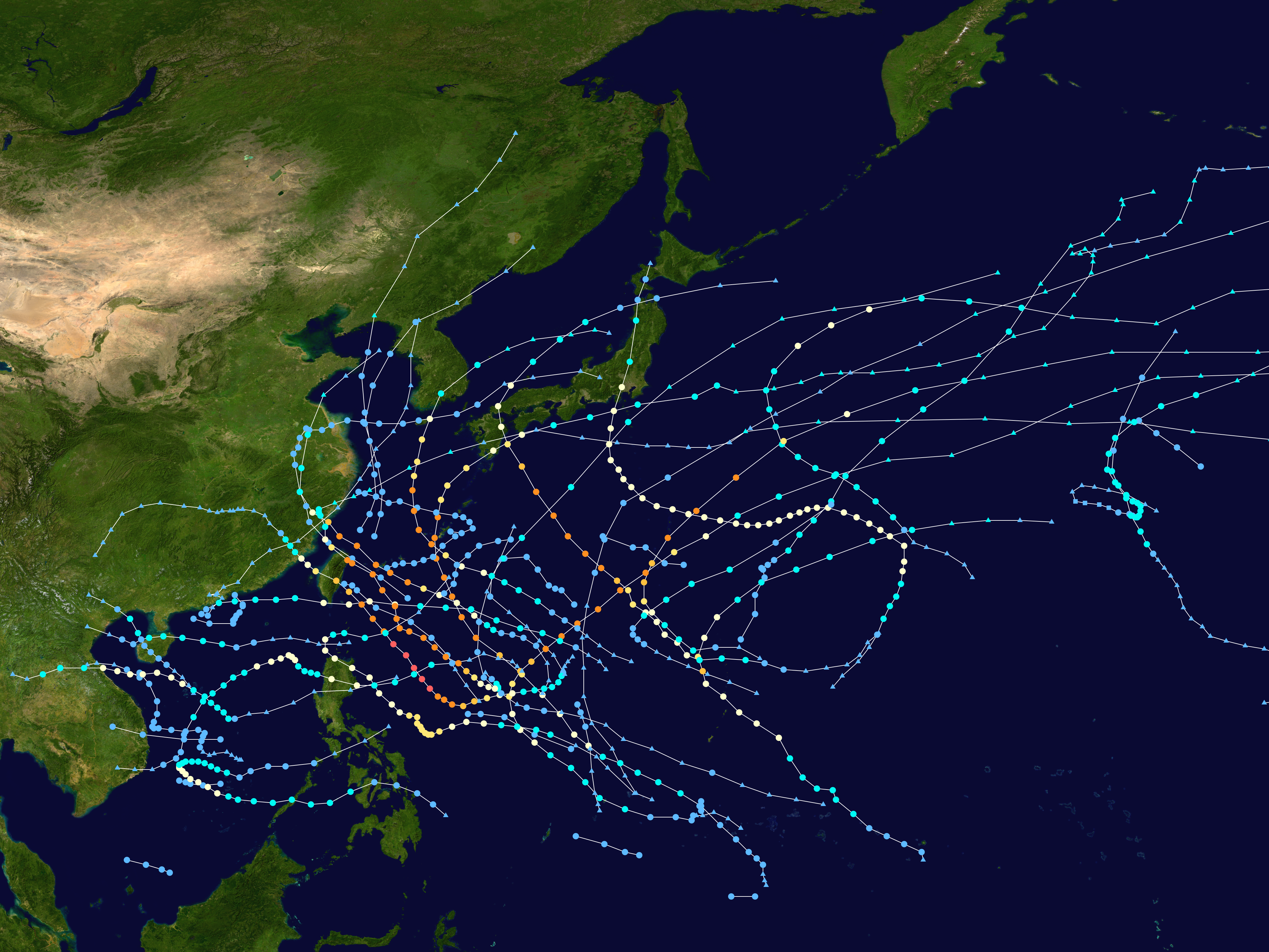 This map shows the tracks of all tropical cyclones in the 2007 Pacific typhoon season. The points show the location of each storm at 6-hour intervals. The colour represents the storm's maximum sustained wind speeds as classified in the Saffir-Simpson Hurricane Scale (see below), and the shape of the data points represent the type of the storm. Saffir–Simpson scale Tropical depression≤38 mph≤62 km/h Category 3111–129 mph178–208 km/h Tropical storm39–73 mph63–118 km/h Category 4130–156 mph209–251 km/h Category 174–95 mph119–153 km/h Category 5≥157 mph≥252 km/h Category 296–110 mph154–177 km/h Unknown Storm type Tropical cyclone Subtropical cyclone Extratropical cyclone / Remnant low / Tropical disturbance / Monsoon depression